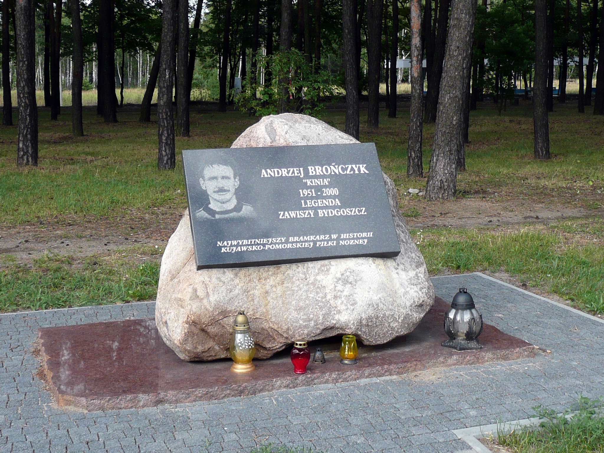 The memorial of Andrzej Brończyk, polish goalkeeper, Bydgoszcz, Poland.